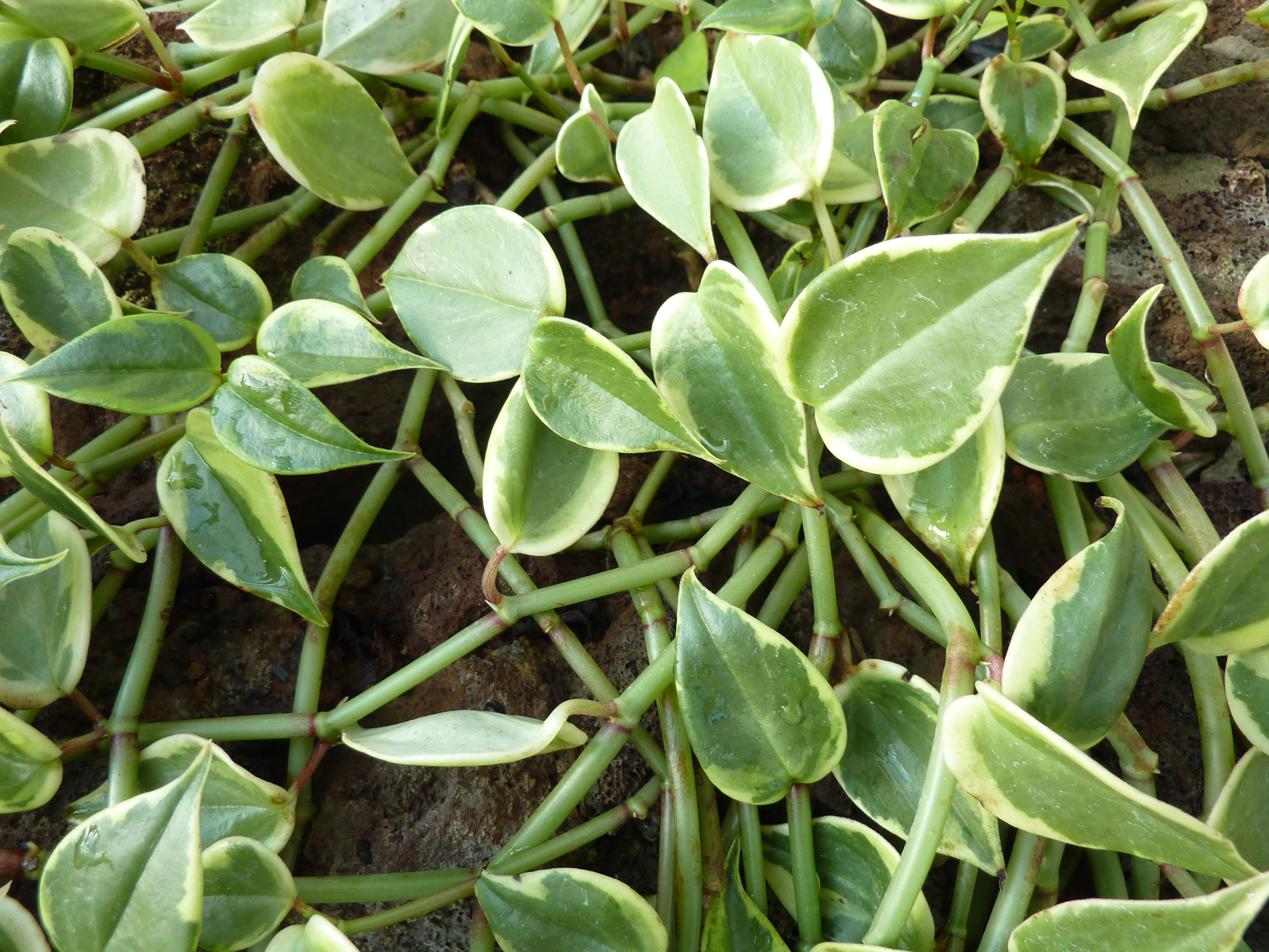 Peperomia nitida var. Variegata in the Botanical Garden, Berlin.